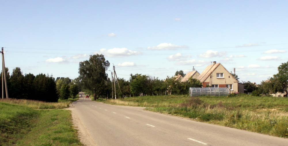 Einoraičiai, Šiauliai district, Lithuania